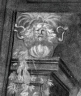 Pfarrer Johann Philipp Janson (1707-1758), aus Ottersheim, Erbauer der kath. Kirche von Mönchberg